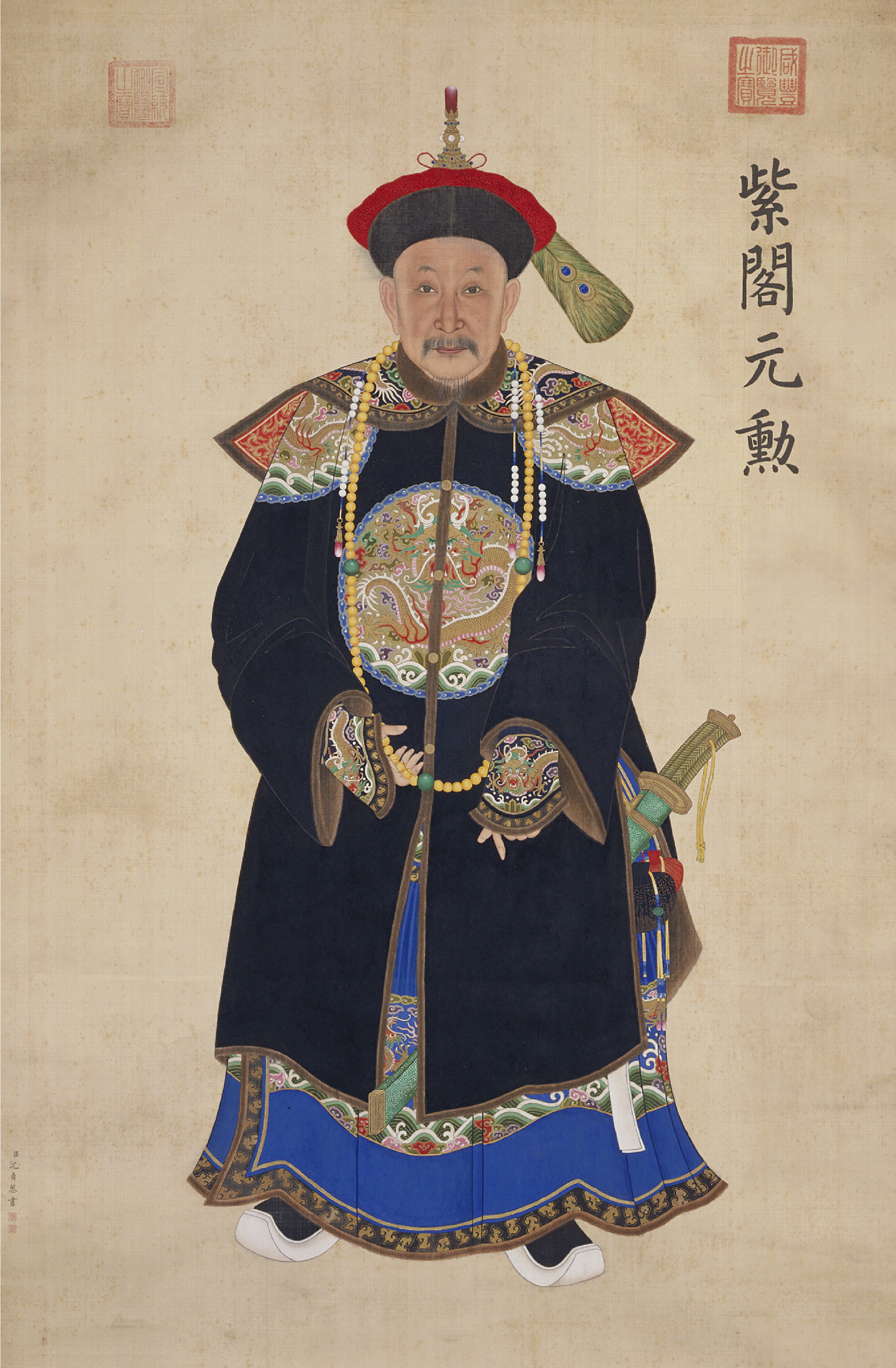 Agôi (阿桂 agui), an officer of the Qing Army during Qianlong's era.